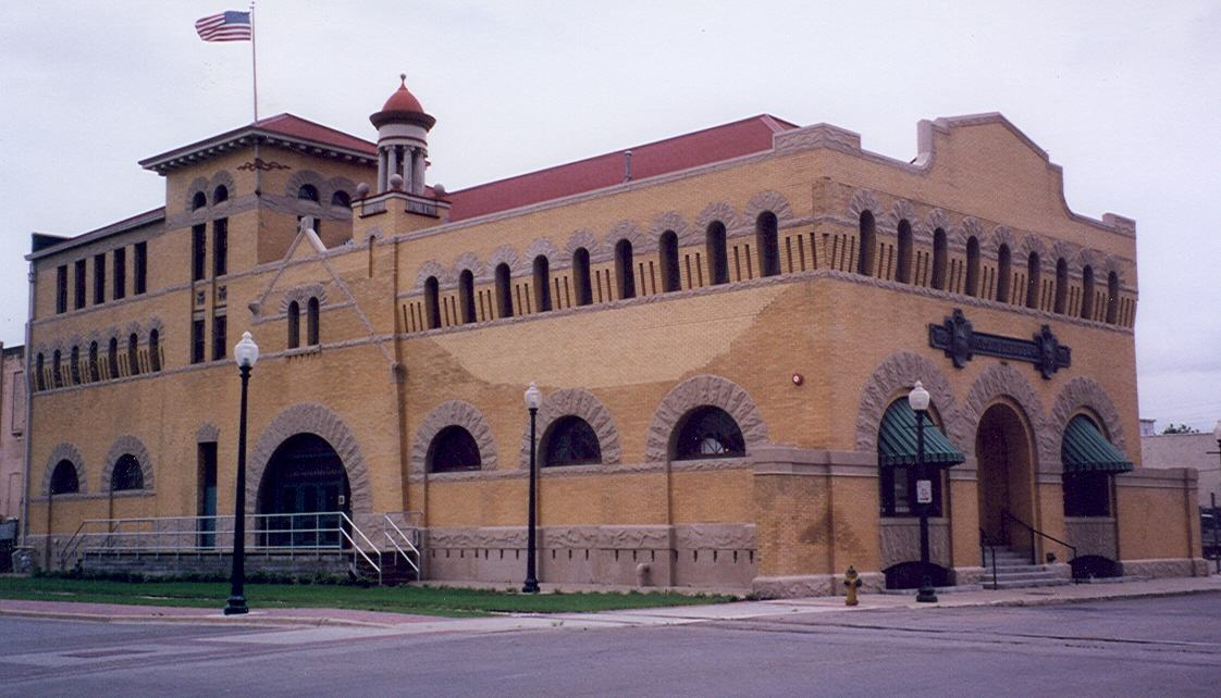 Dr. Pepper Museum in Waco, Texas. Damage inflicted by the w:1953 Waco tornado outbreak can be clearly seen in the newer, lighter bricks along the top-front quarter of the building. Taken by Ichabod May, 1999.